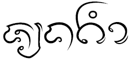 Lanna script – Chiang Kham is a district (Amphoe) in the northeastern part of Phayao Province, northern Thailand.